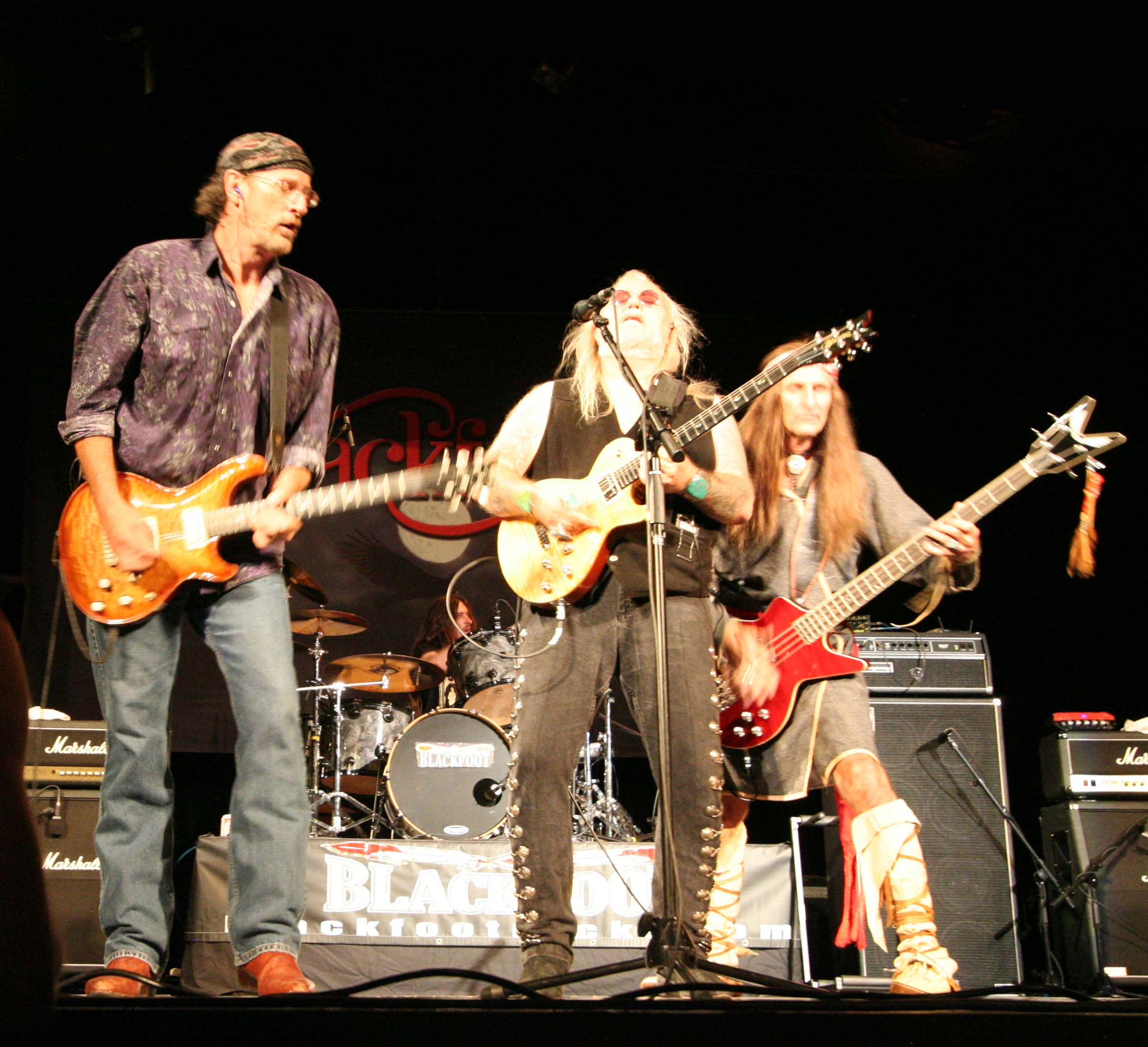 A photo of the group Blackfoot taken in concert at the Poncan Theatre on June 21, 2008. Use of this photo must include a photo credit to Hugh Pickens and if used on the web a link to